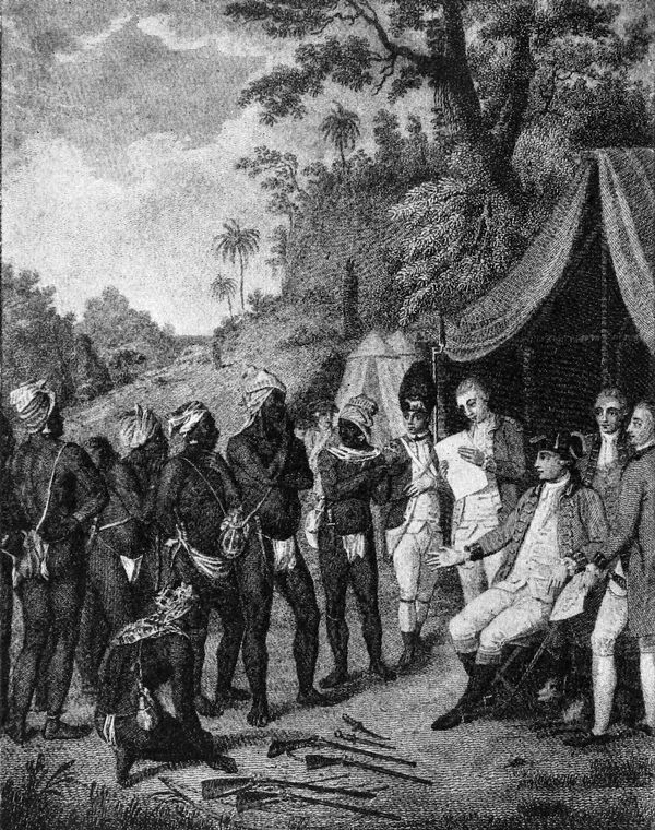 Depiction of treaty negotiations between Black Caribs and British authorities on the Caribbean island of Saint Vincent, 1773.